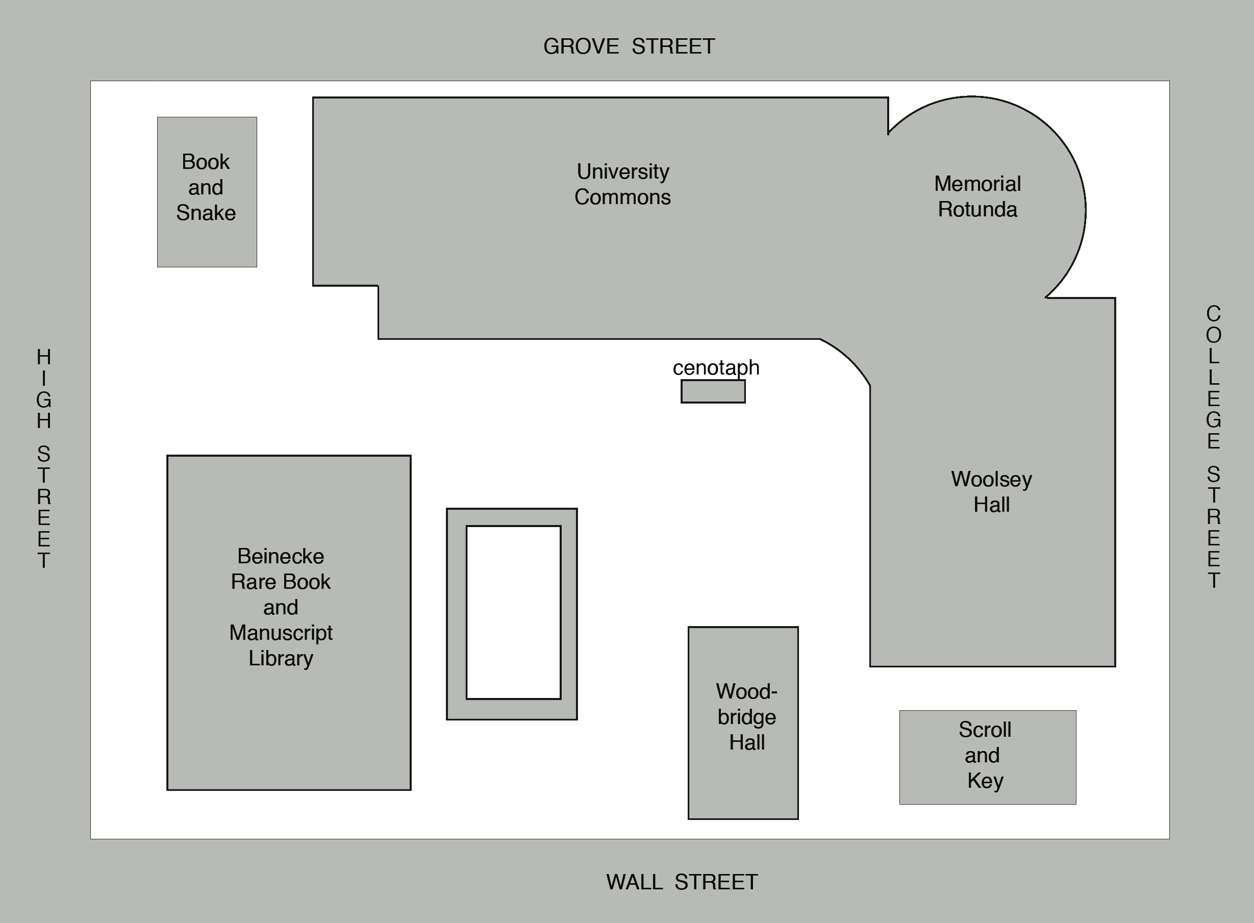 I drew it, I release it into the public domain and release all rights.